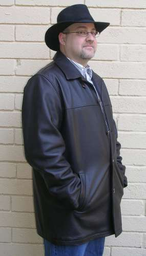 Official author photo of David Louis Edelman, taken by Victoria Edelman in September 2007.